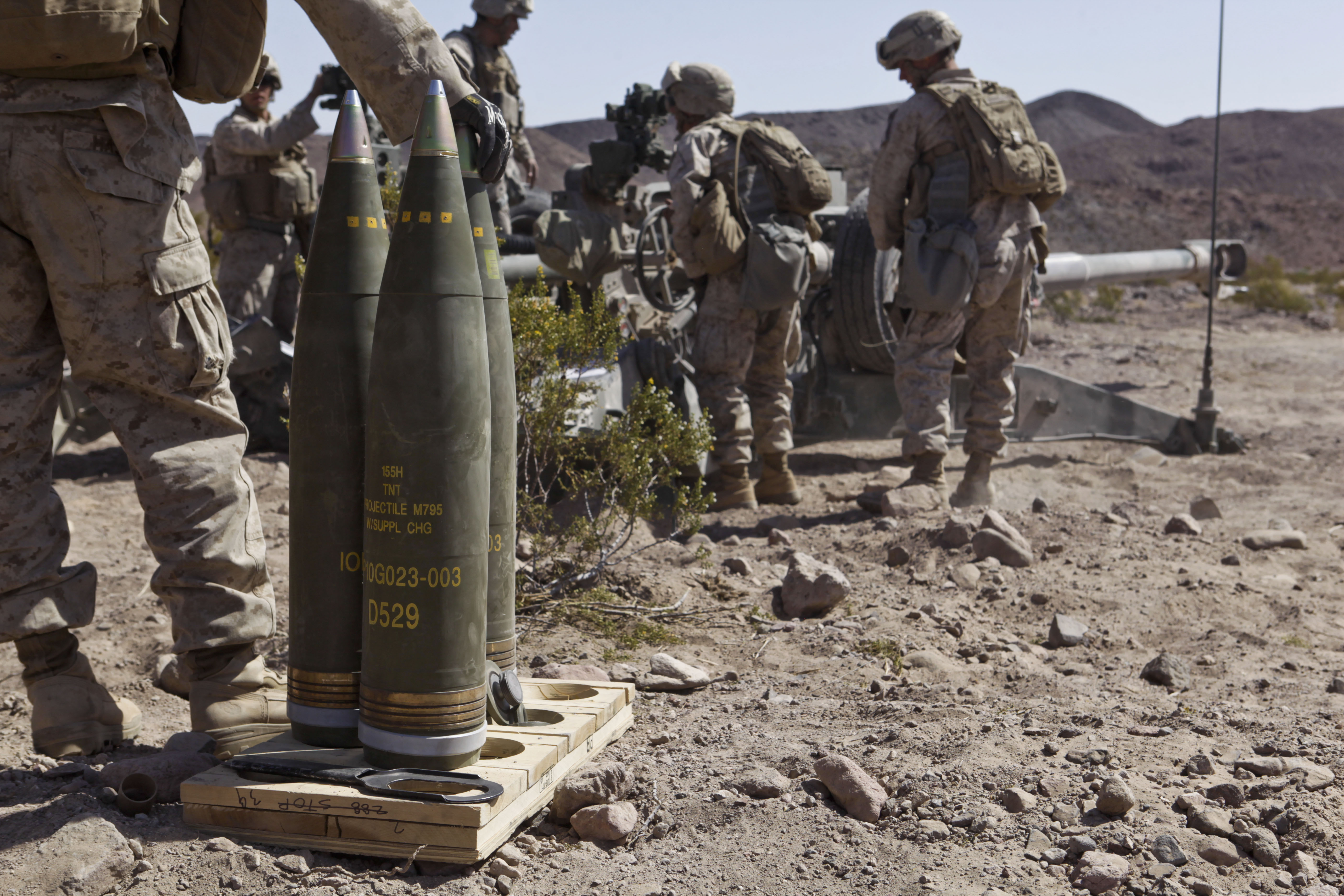 A U.S. Marine with Battery I, 3rd Battalion, 12th Marine Regiment stands ready to load an M795 High Explosive round into an M777 Lightweight 155mm Howitzer during the 11th Marine Regiment's Desert Fire Exercise aboard Marine Corps Air-Ground Combat Center 29 Palms, Calif. April 23, 2013. 11th Marines conducted an artillery desert firing exercise to maintain their combat proficiency via realistic combat scenarios. (U.S. Marine Corps photo by Lance Cpl. Sean Searfus, 1st Marine Division/ Released)